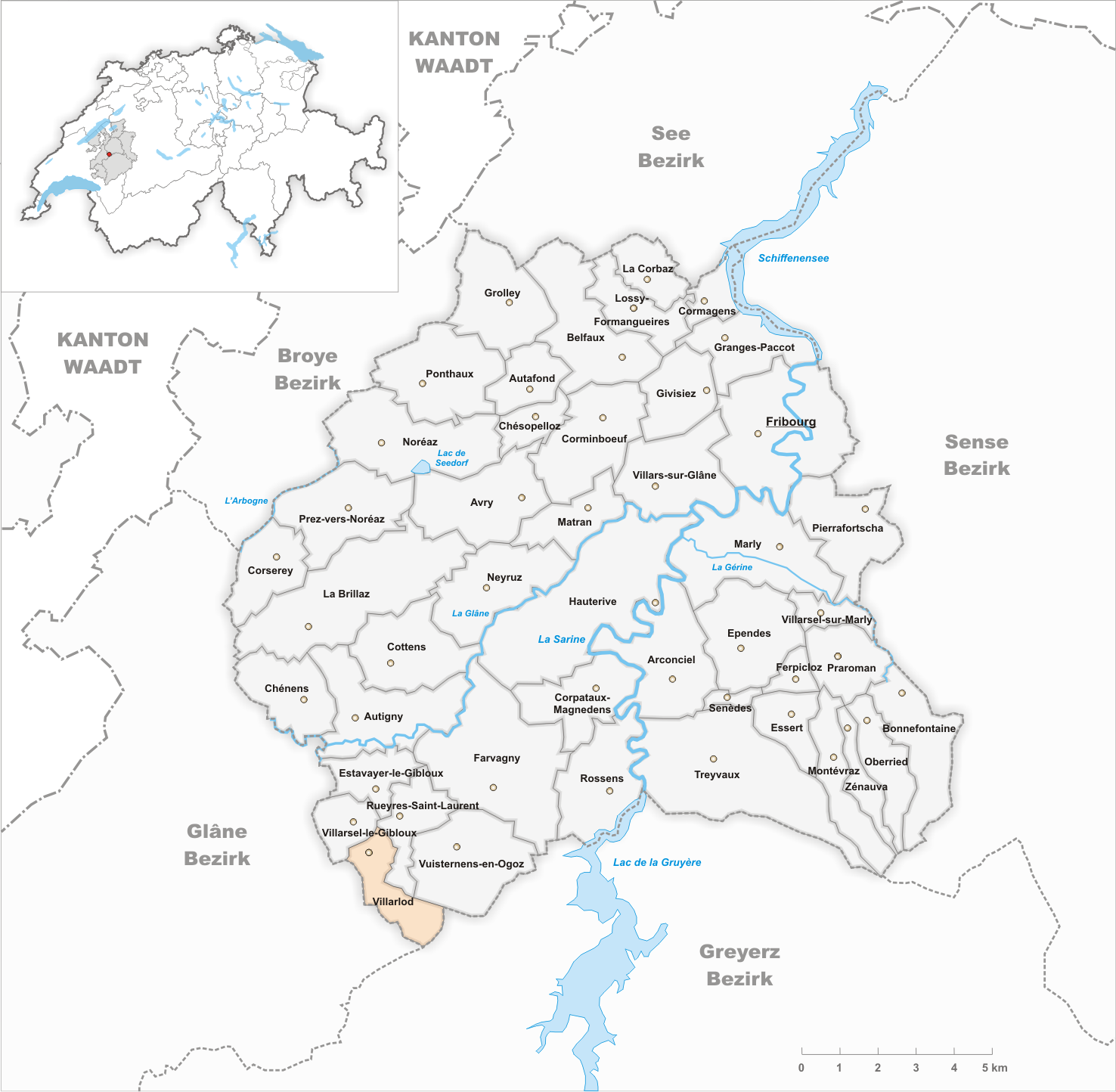 Municipality Villarlod Artist: Tschubby